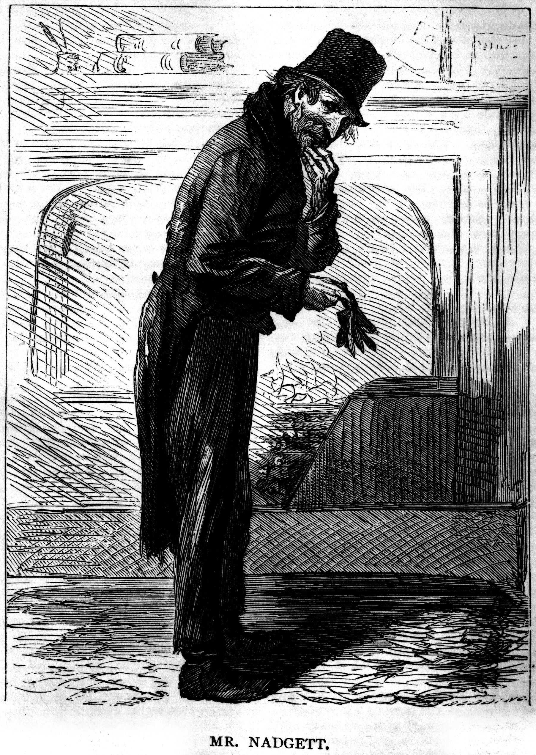 Illustration from 1867 U.S. edition of Martin Chuzzlewit. Page 258. "Mr. Nadgett"